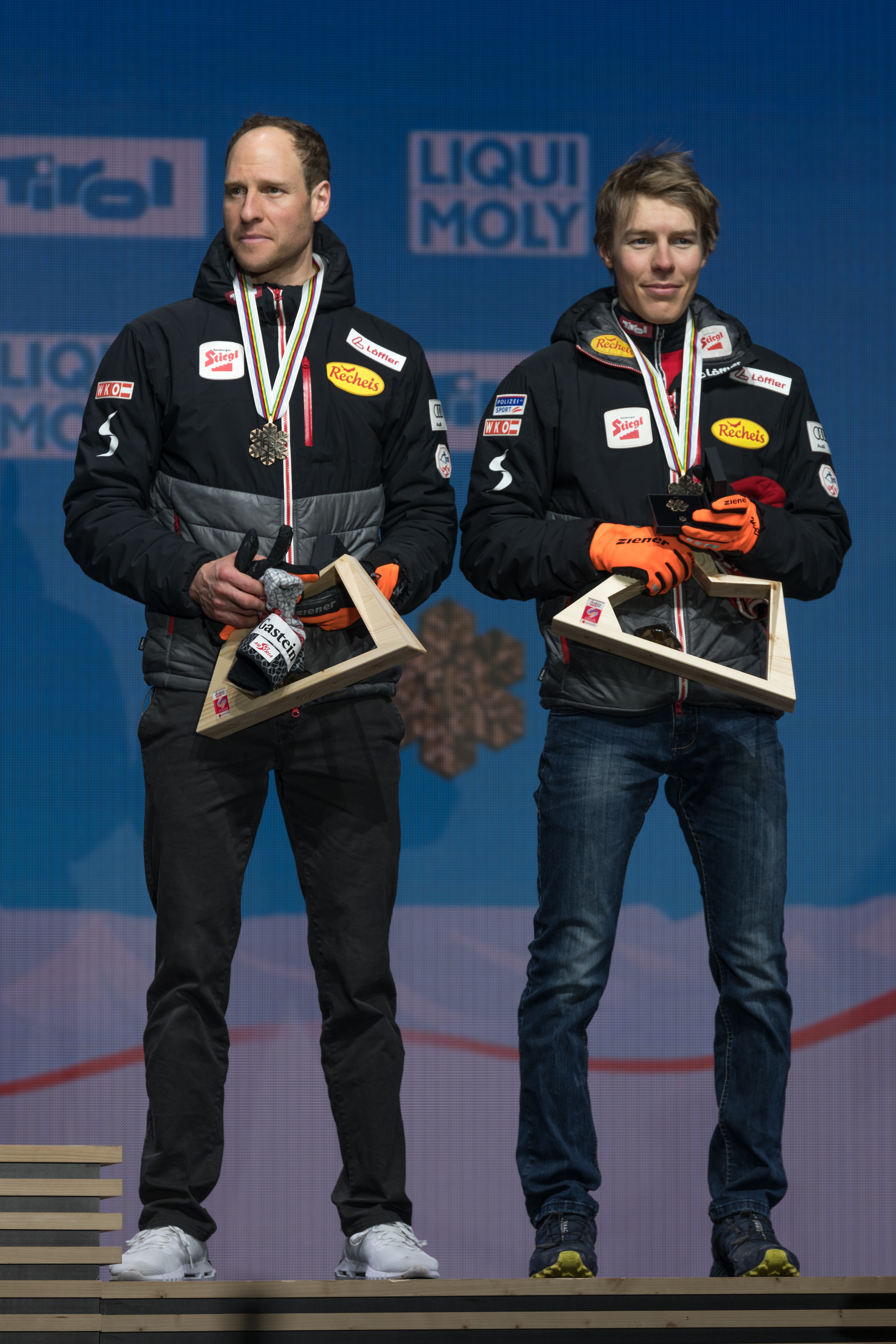 FIS Nordic Wolrd Championships Seefeld 2019 - Medal Ceremony at the Medal Plaza. Picture shows Bernhard Gruber (AUT), Franz-Josef Rehrl (AUT).